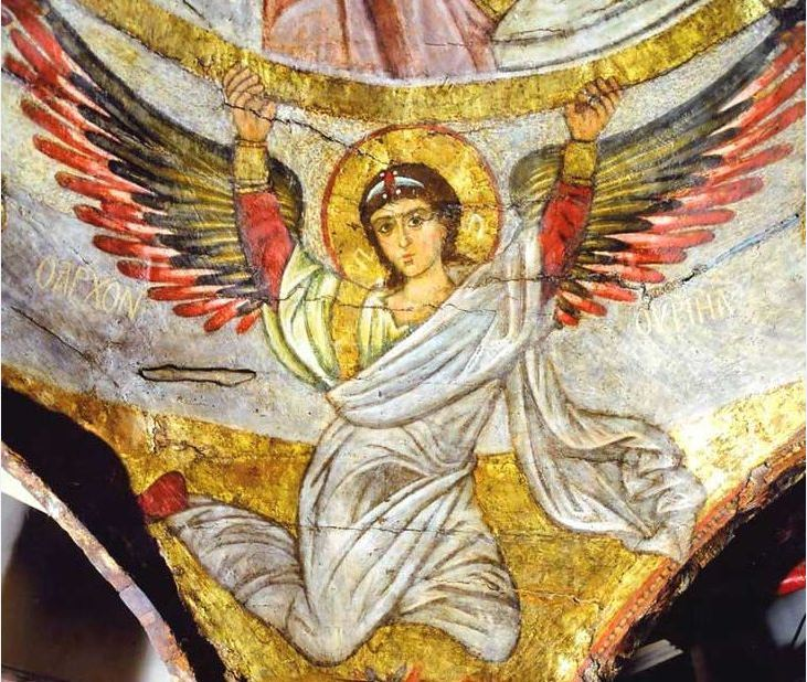 Fresco of the archangel Uriel and tetramorph (can not be seen in this image) at Saint Virgin Mary’s Coptic Orthodox Church (The Hanging Church) in Cairo, Egypt.